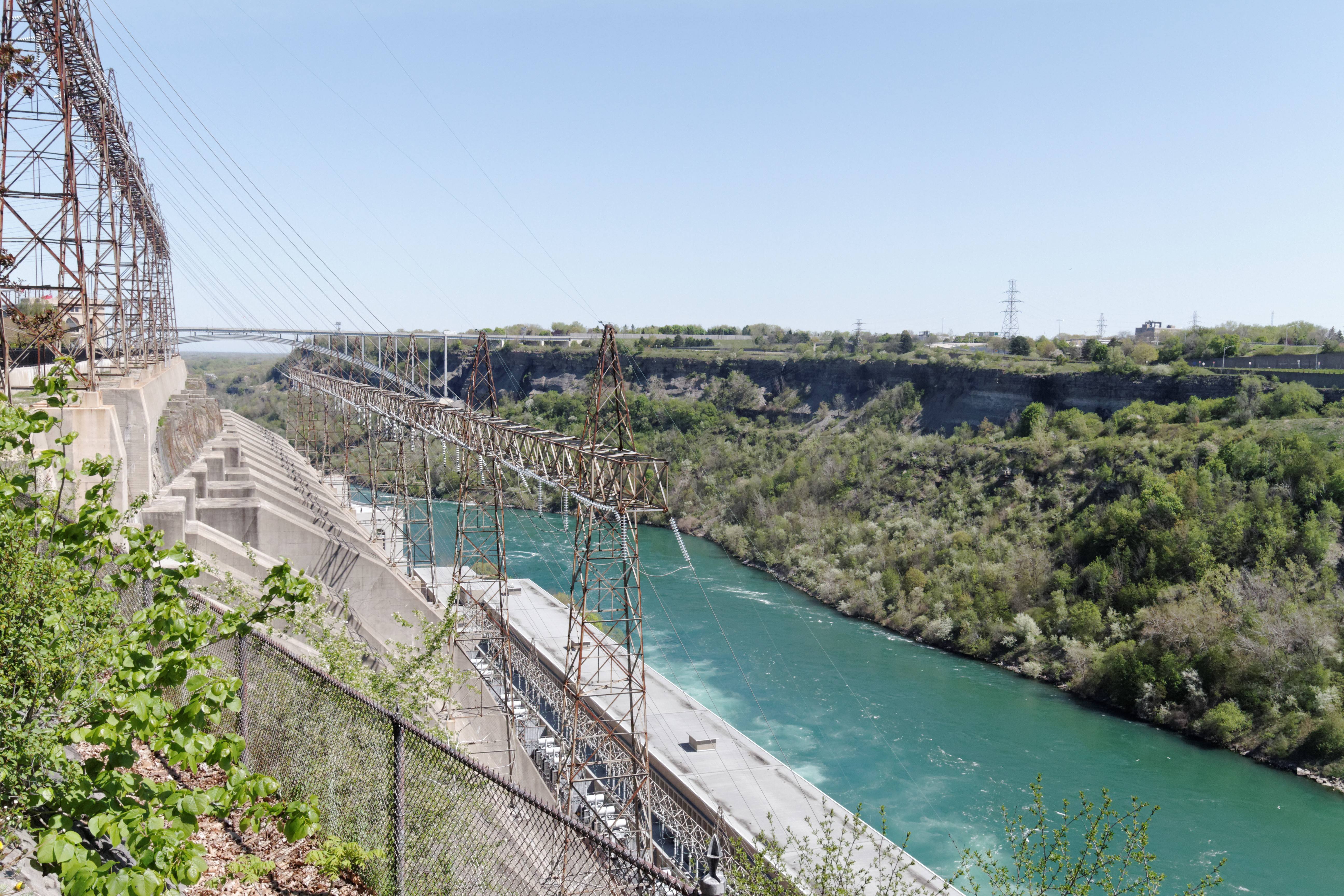 Niagara Falls and Niagara Gorge